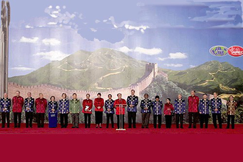 SHANGHAI. Chinese President Jiang Zemin announcing a final declaration of the APEC economic leaders.